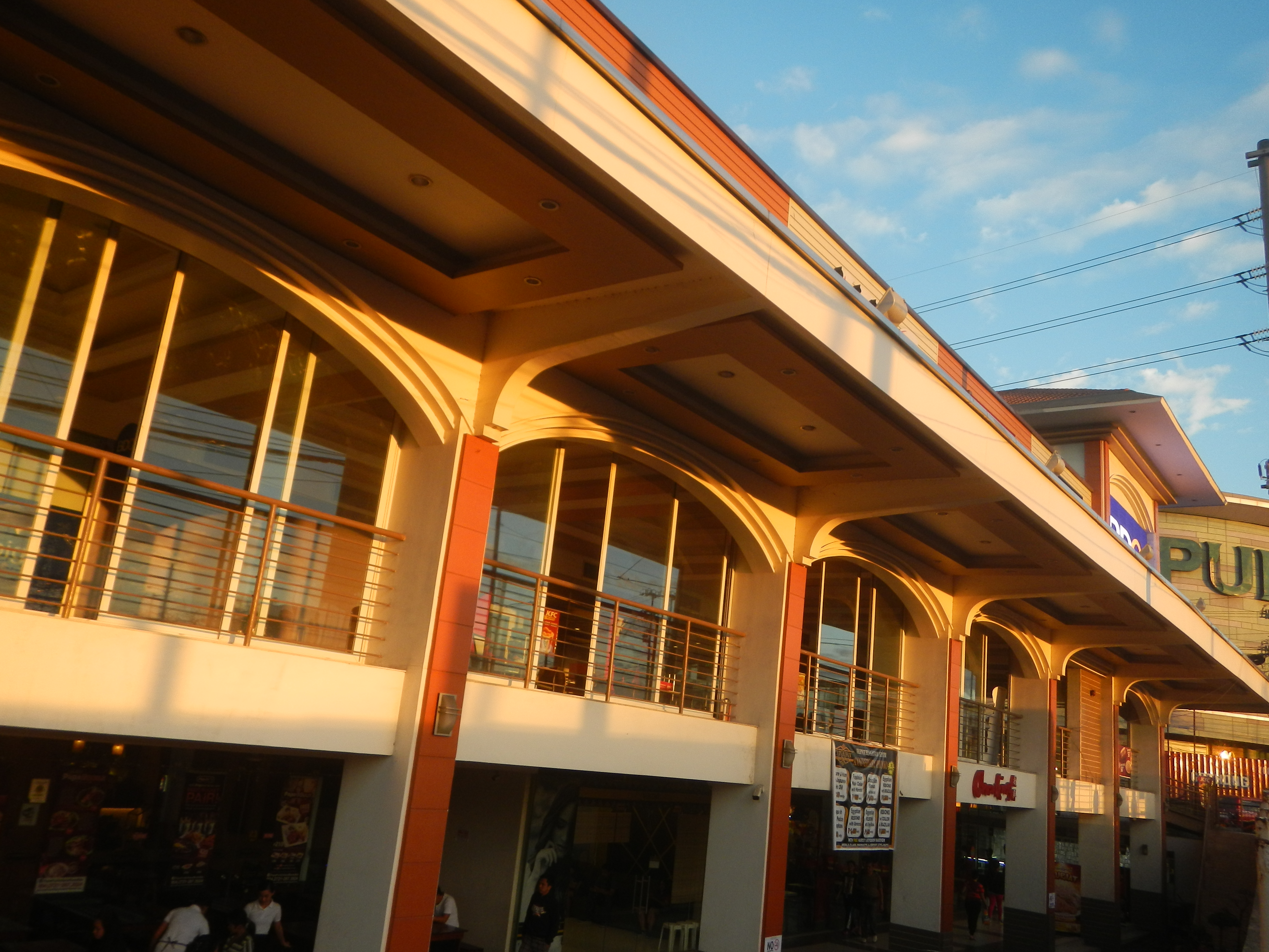 Valenzuela Gateway Complex (Paso de Blas, Valenzuela City) Malinta Interchange Bridges 1 & 2, NLEx (Paso de Blas, Valenzuela City) Paso de Blas Road corner East Service Road - bridge, flea & street markets (Paso de Blas, Valenzuela City) Ugong 14°41'40"N 121°1'10"E Gen. T de Leon 14°41'13"N 120°59'52"E Paso de Blas 14°42'30"N 120°59'38"E Valenzuela, Metro Manila Valenzuela, Lists of barangays in Philippine cities and municipalities, List of barangays in Valenzuela Valenzuela, Metro Manila (Note: Judge Florentino Floro, the owner, to repeat, Donor Florentino Floro of all these photos hereby donate gratuitously, freely and unconditionally all these photos to and for Wikimedia Commons, exclusively, for public use of the public domain, and again without any condition whatsoever).